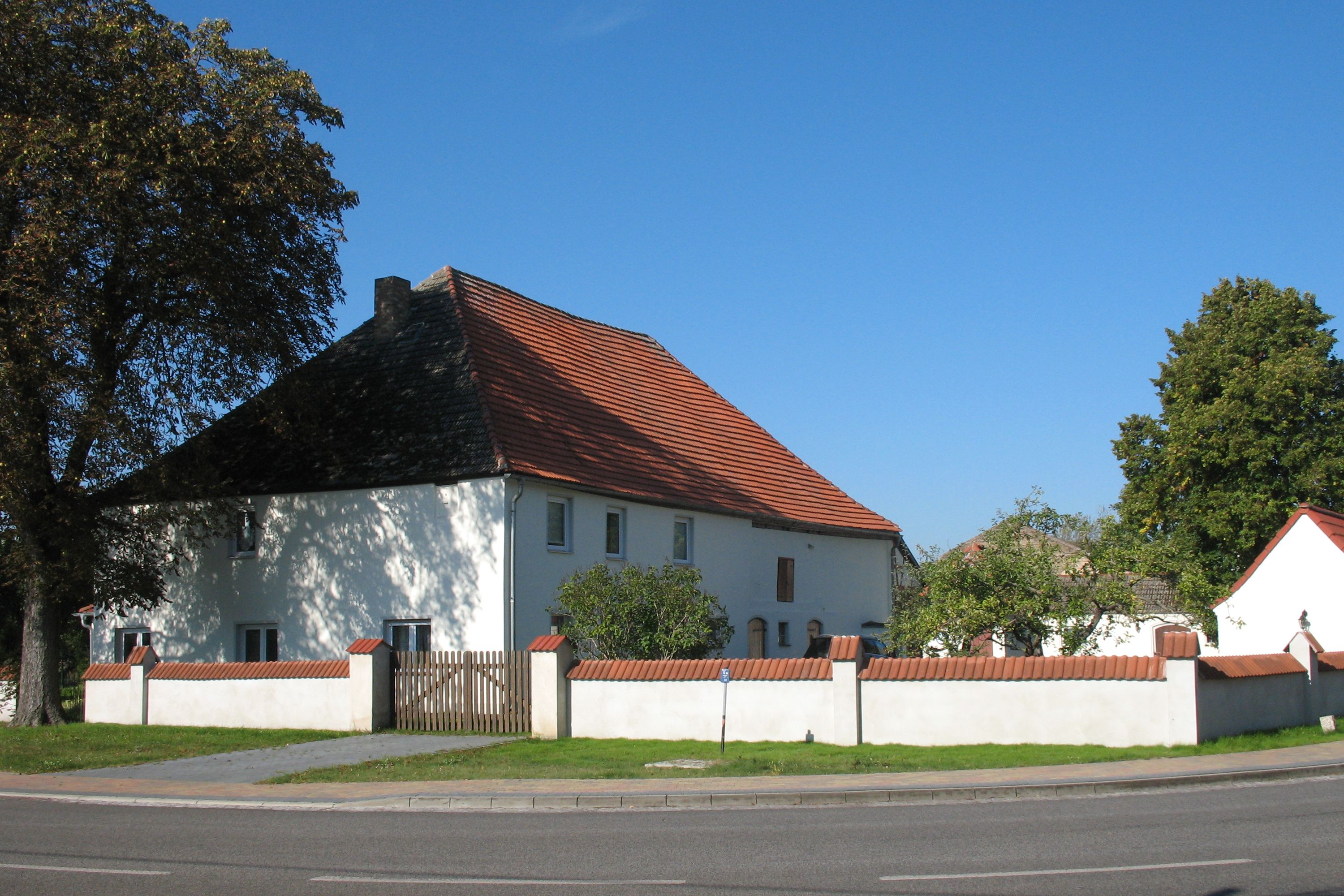 Building in Fehrbellin-Deutschhof in Brandenburg, Germany